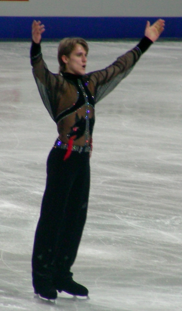 Andrei Griazev on the 2007 European Figure Skating Championships in Warsaw - free skate